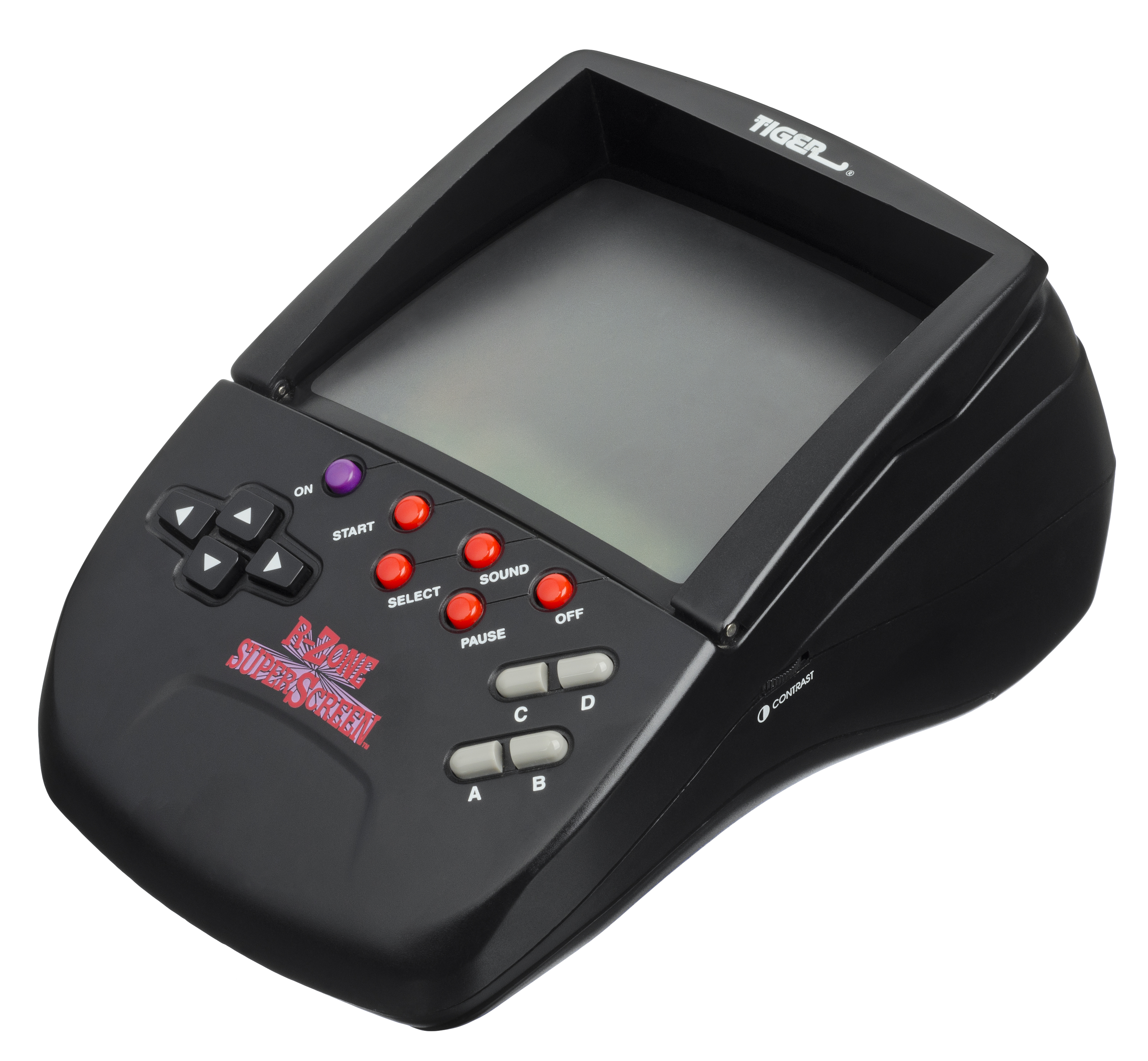 The Tiger R-Zone SuperScreen, a portable game console released in 1995. The system was not much different than Tiger's line of dedicated handheld LCD games, and uses swappable LCD screen cartridges.